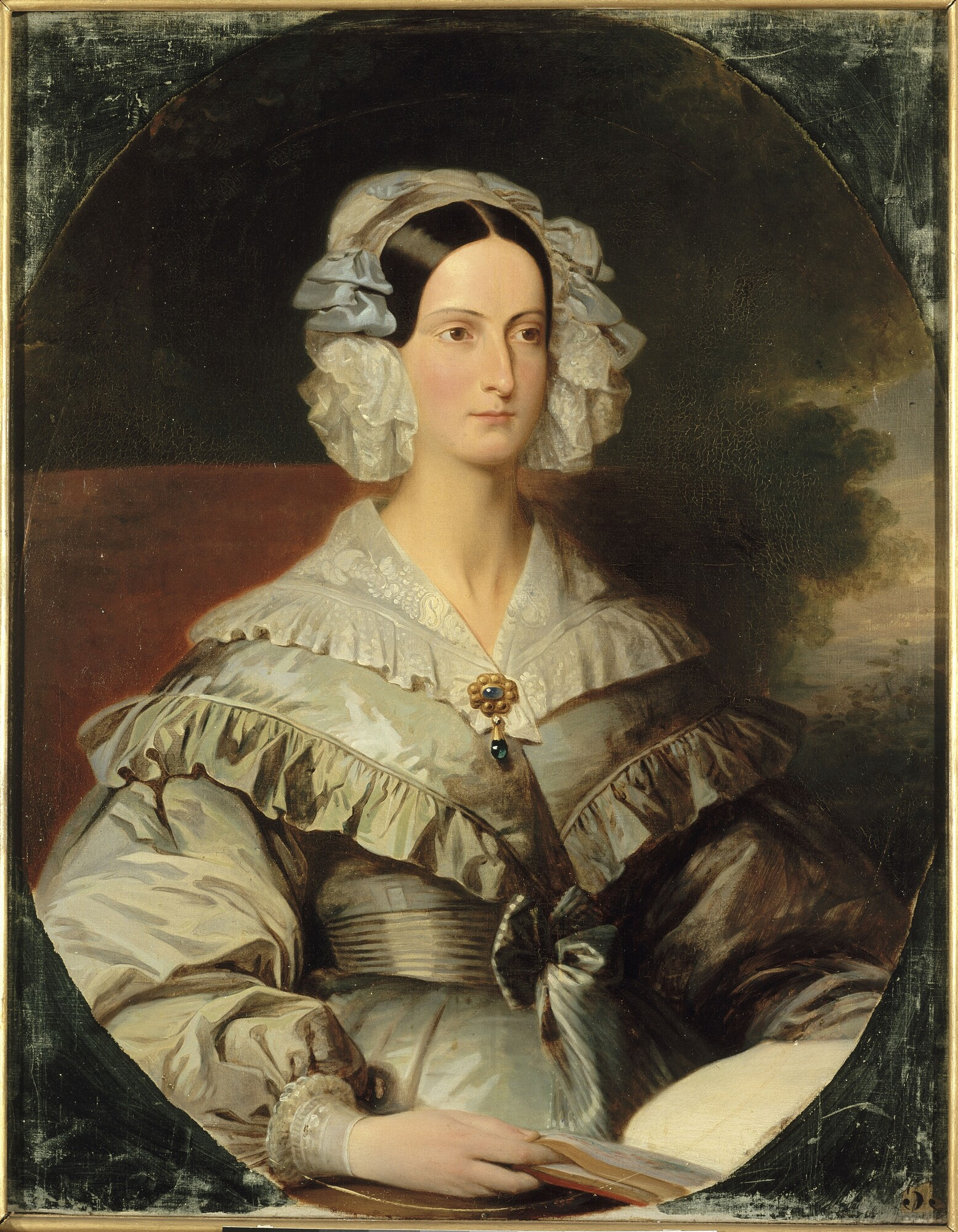 Princess Marie of Orléans (1813–1839) (1813-39), french sculptor